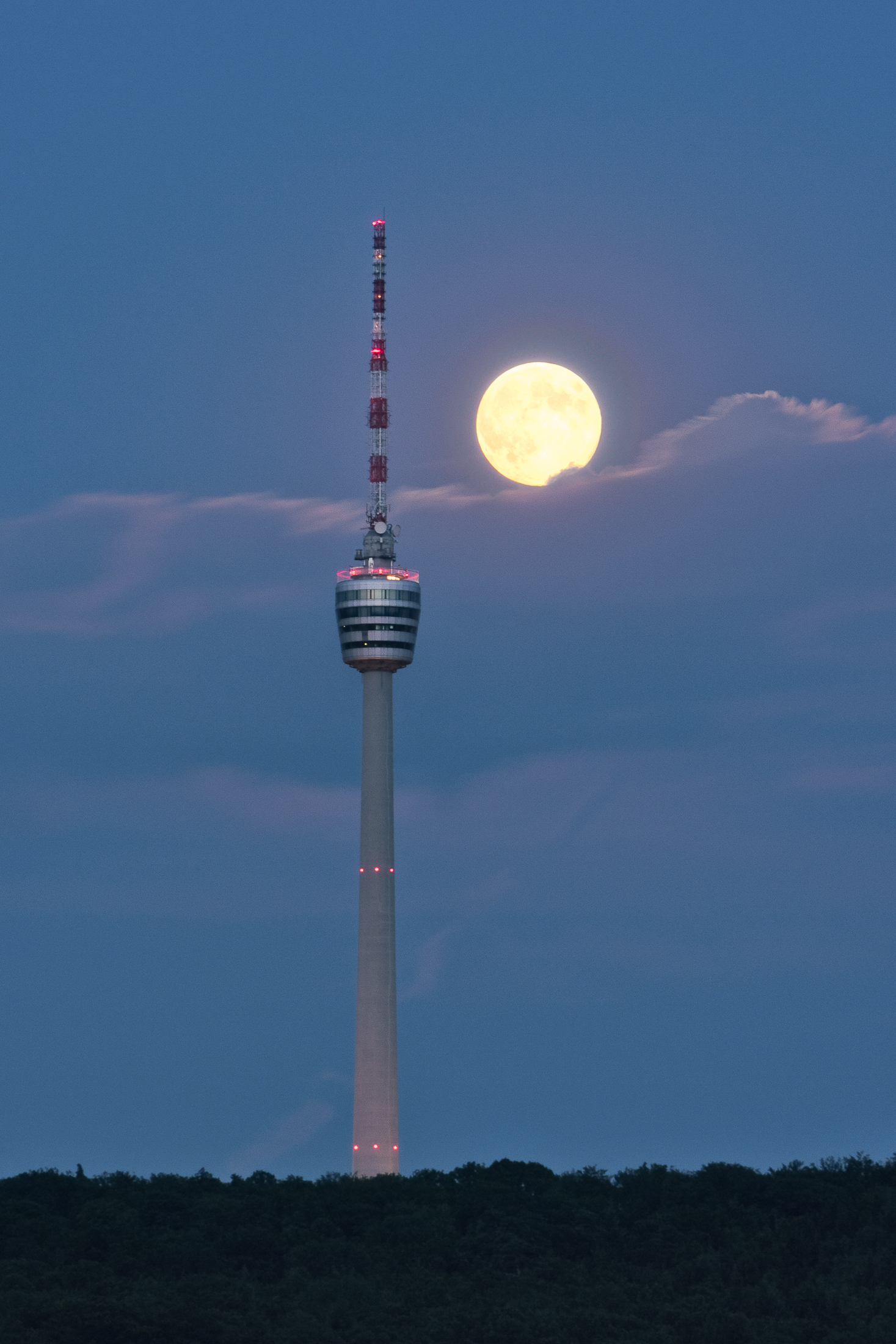 The Fernsehturm Stuttgart (TV Tower Stuttgart) with the full moon rising behind it, seen from the West.